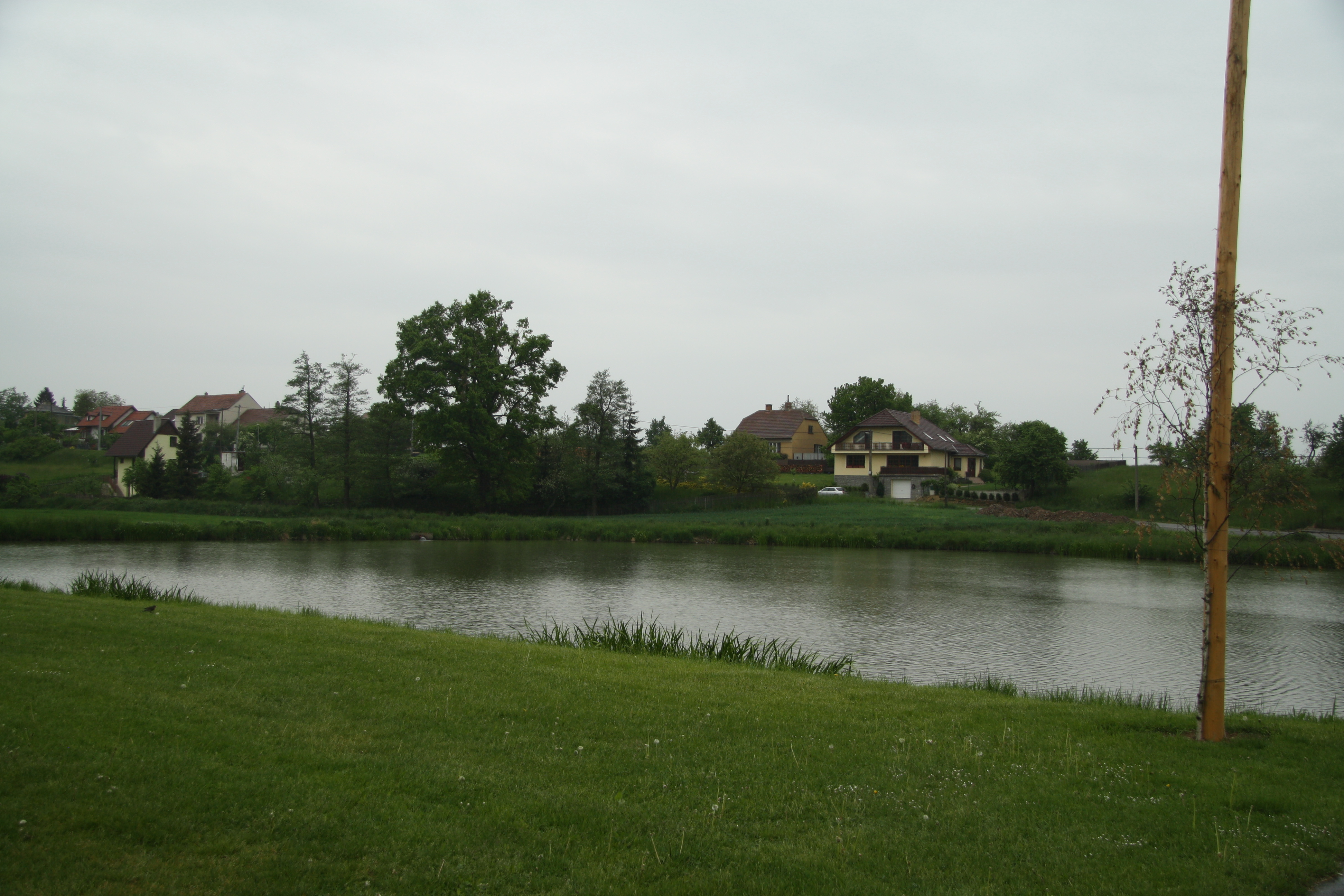 Pond Vybíral in Hvězdoňovice, Třebíč District.